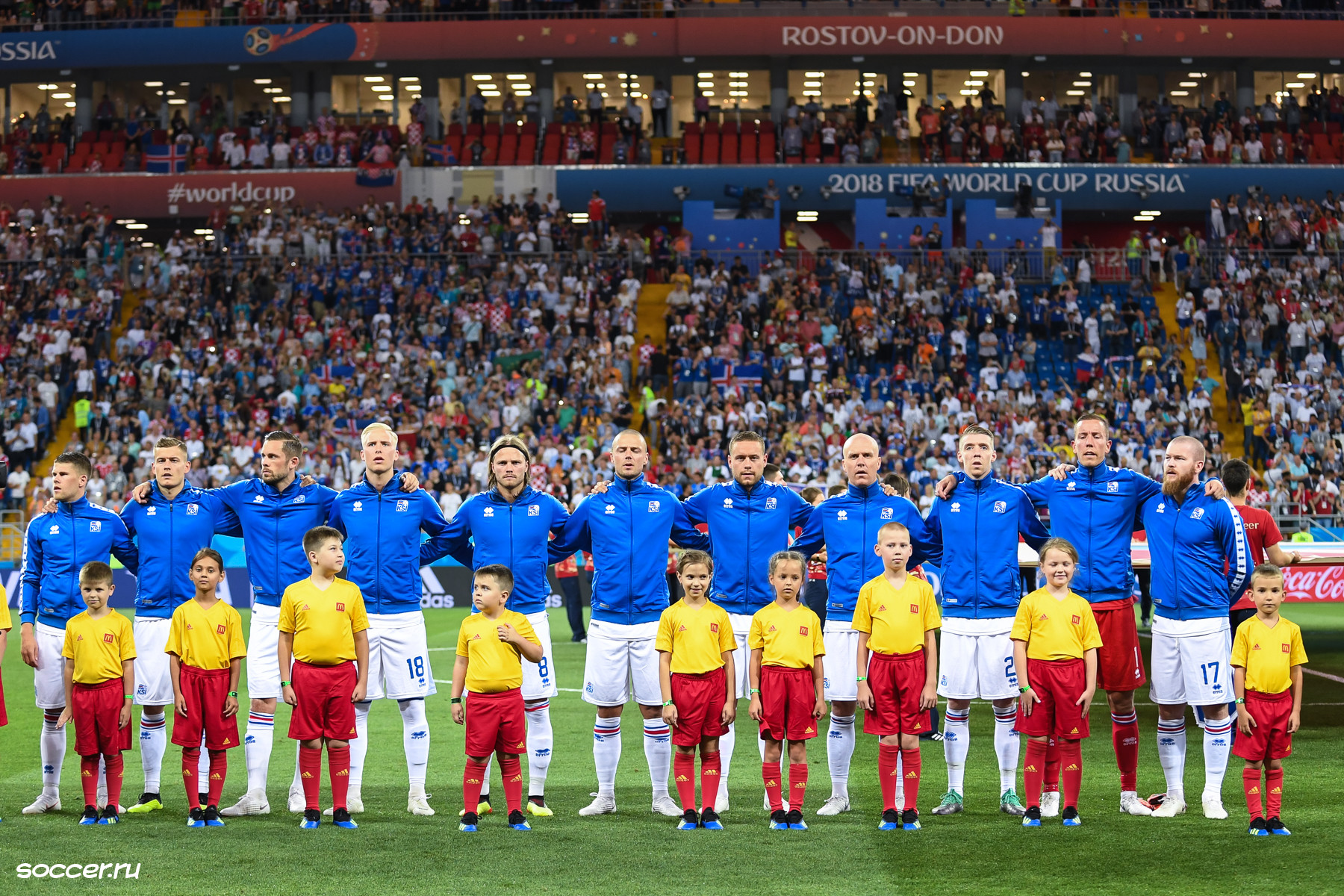 Iceland vs Croatia match